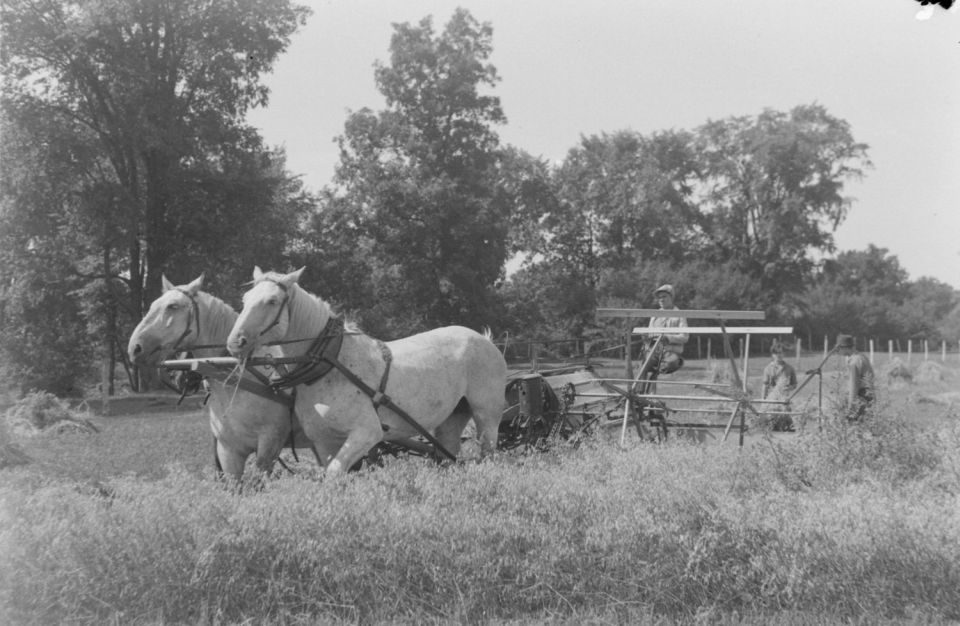 C. McFarlane, A. Lafrenière and F. Collins, the agricultural school students, are the harvest with a combine pulled by two draft horses.